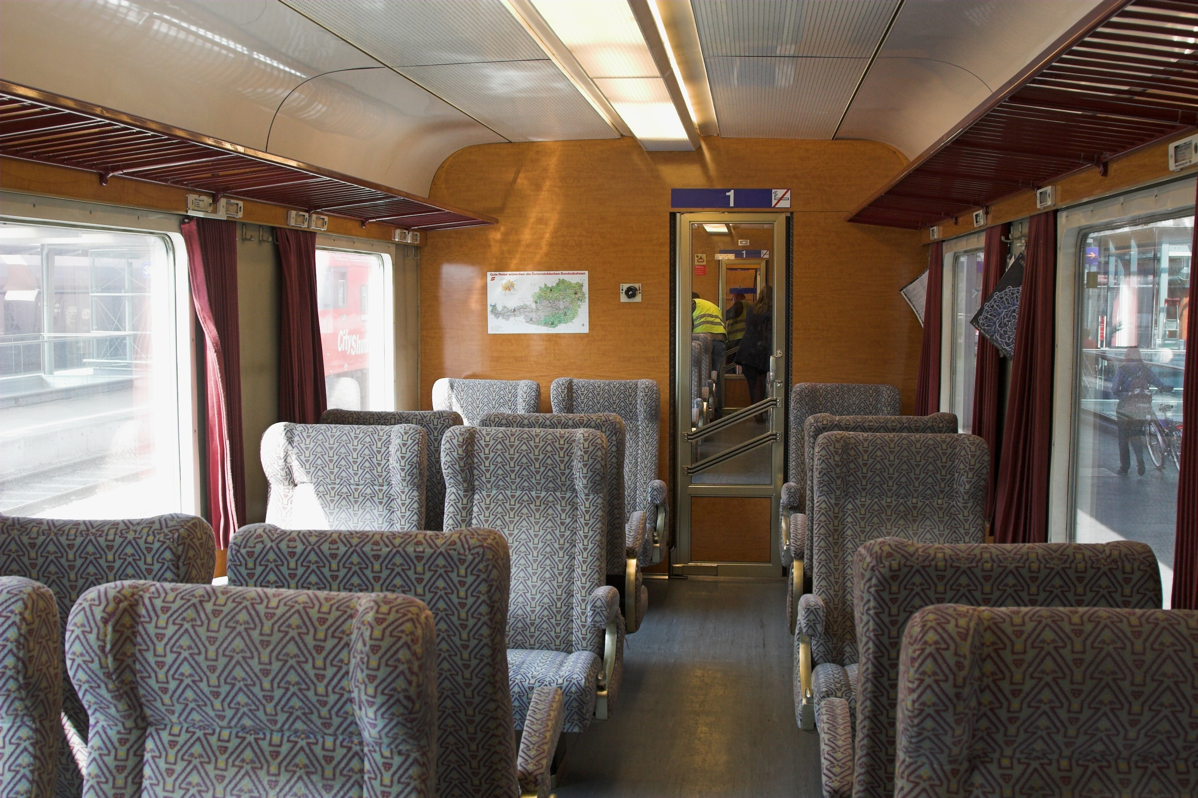 Interior view of an ÖBB 6010 first class carriage. The 6010 cars are the steering units of the class 4010 electric express multiple units.